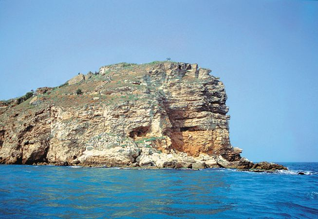 Kaliakra horn on the Bulgarian Black Sea coast